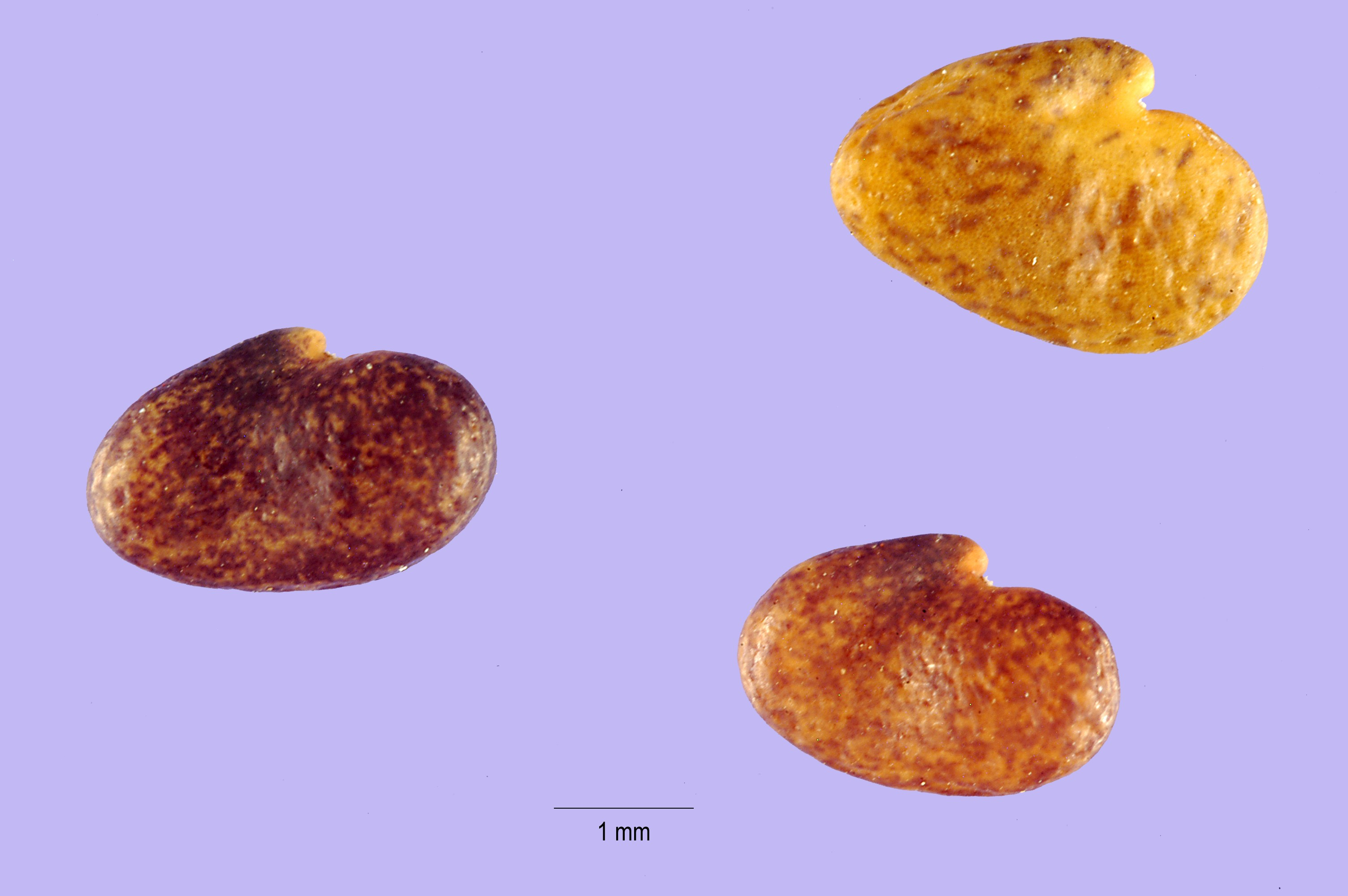 Astragalus andersonii seeds from Tracey Slotta. Provided by ARS Systematic Botany and Mycology Laboratory. United States, NV, Washoe Co.